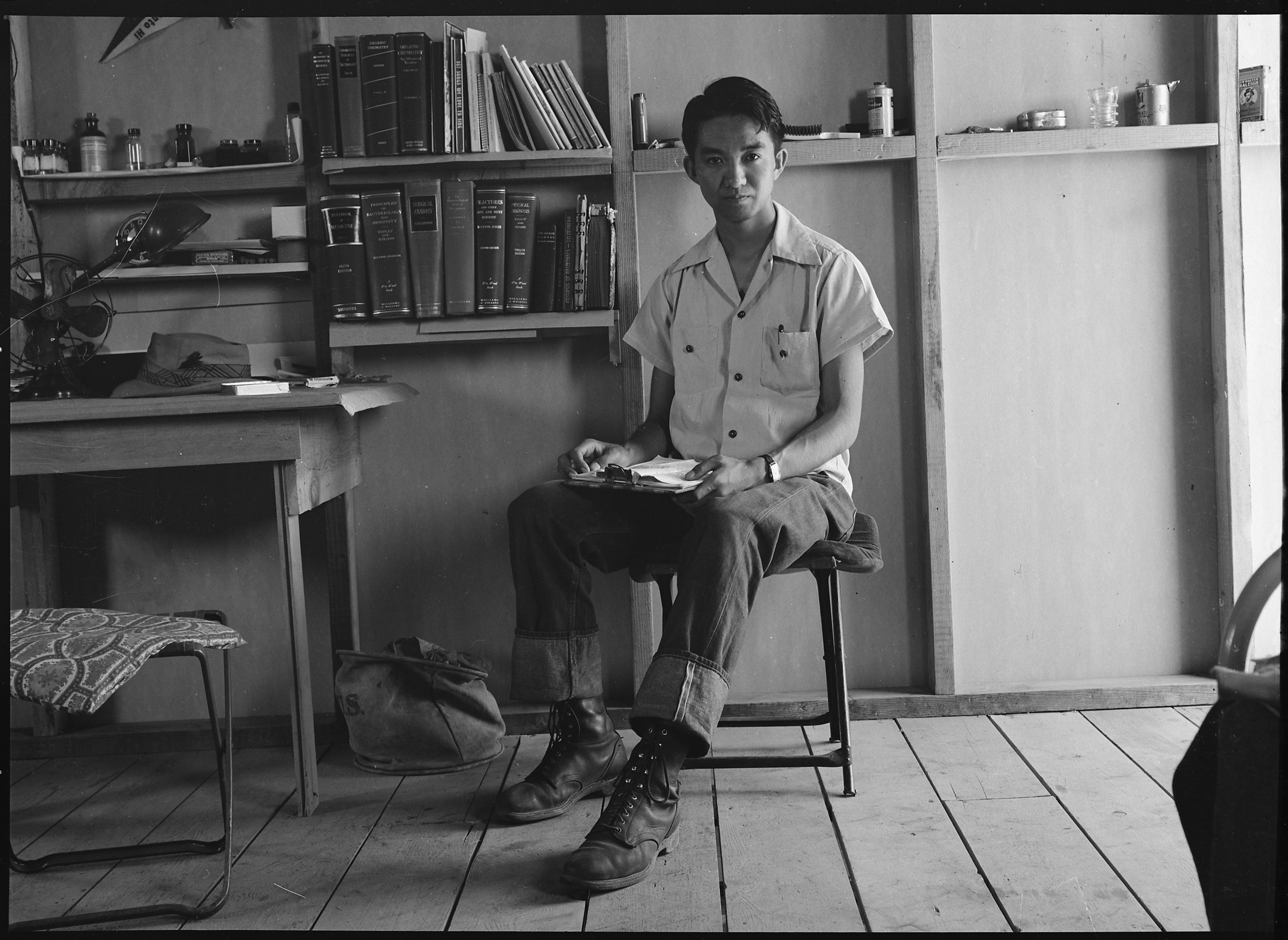 Scope and content: The full caption for this photograph reads: Sacramento, California. Harvey Akio Itano, 21, 1942 graduate from the University of California where he received his Bachelor of Science [in] Chemistry degree. He was chosen by the faculty as University Medalist for 1942 and was a member of Phi Beta Kappa and Sigma Xi. Mr. Itano went to the Assembly center prior to the commencement exercises at which President Robert Gordon Sproul said, "He cannot be here with us today. His country has called him elsewhere". Mr. Itano hopes to enter the field of medicine and has taken his books with him to the Center where he is spending the duration.